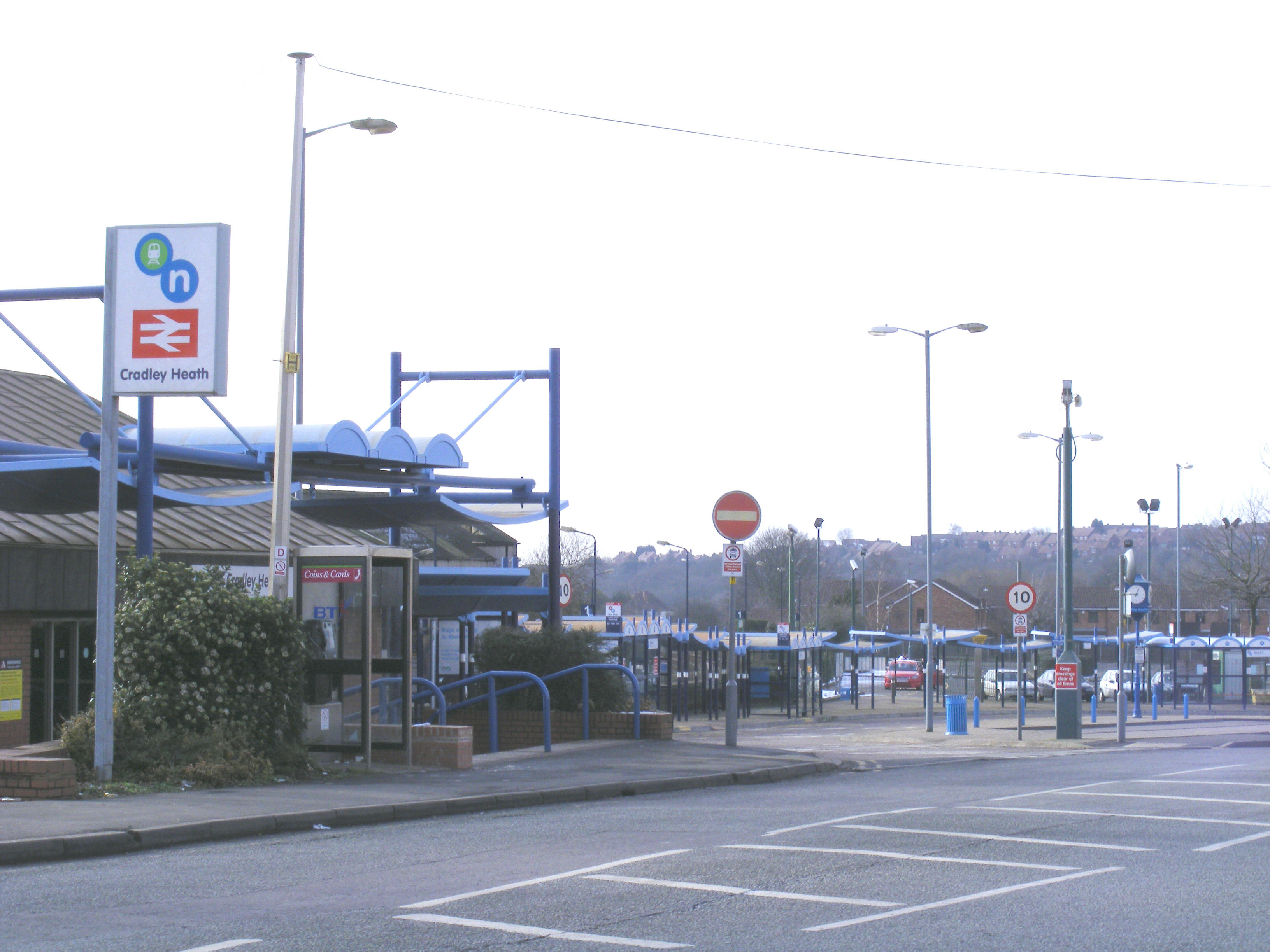 Cradley Heath Interchange, which is based upon Cradaley Heath Railway Station with added bus station and car park.